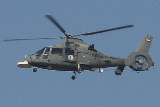 c/n 6566 The AS565SB is an Anti-Submarine Warfare variant of the SA365N3 Dauphin. 16 are operated by the UAE Navy. Seen on approach to Al Bateen Executive Airport / Bateen AFB, Abu Dhabi, United Arab Emirates. 15-9-2015 Shot taken from a distance, hence the low quality!